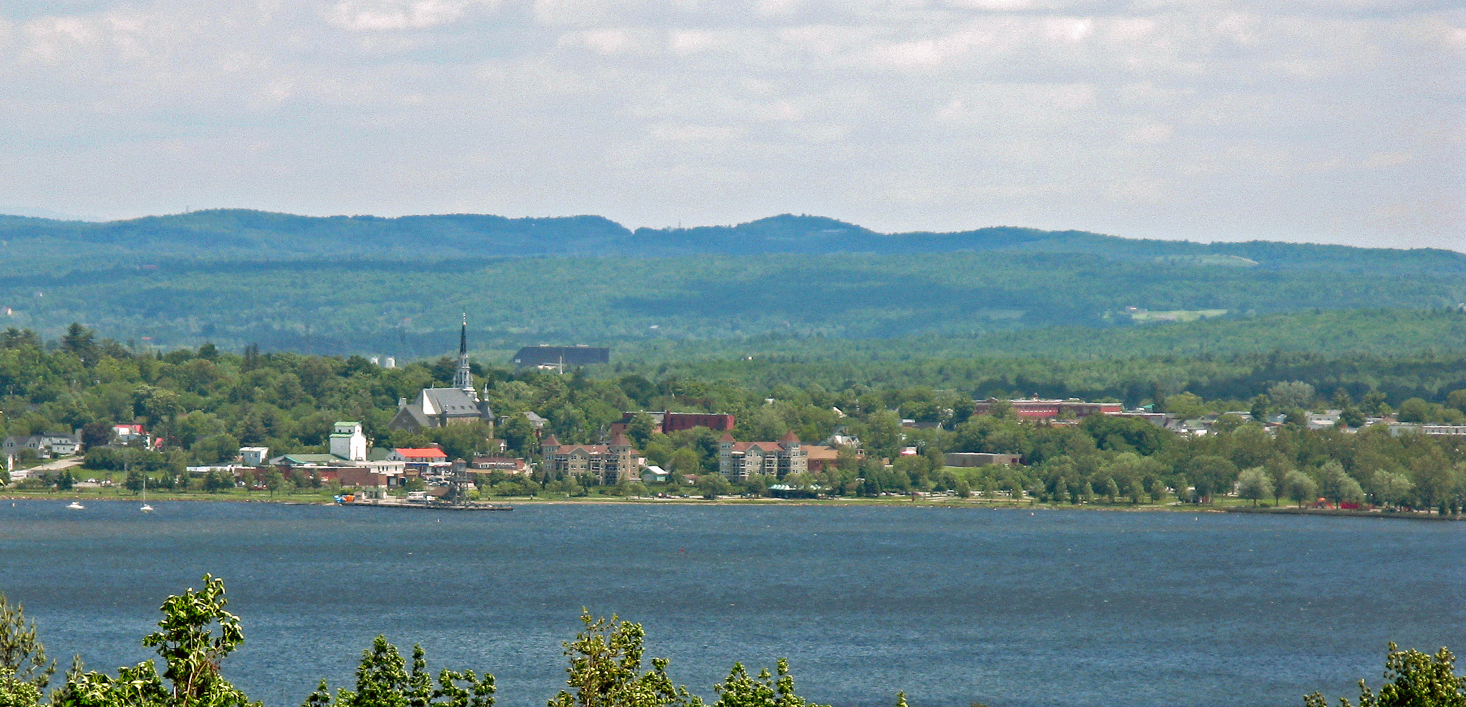 The city of Magog in the province of Quebec, Canada.